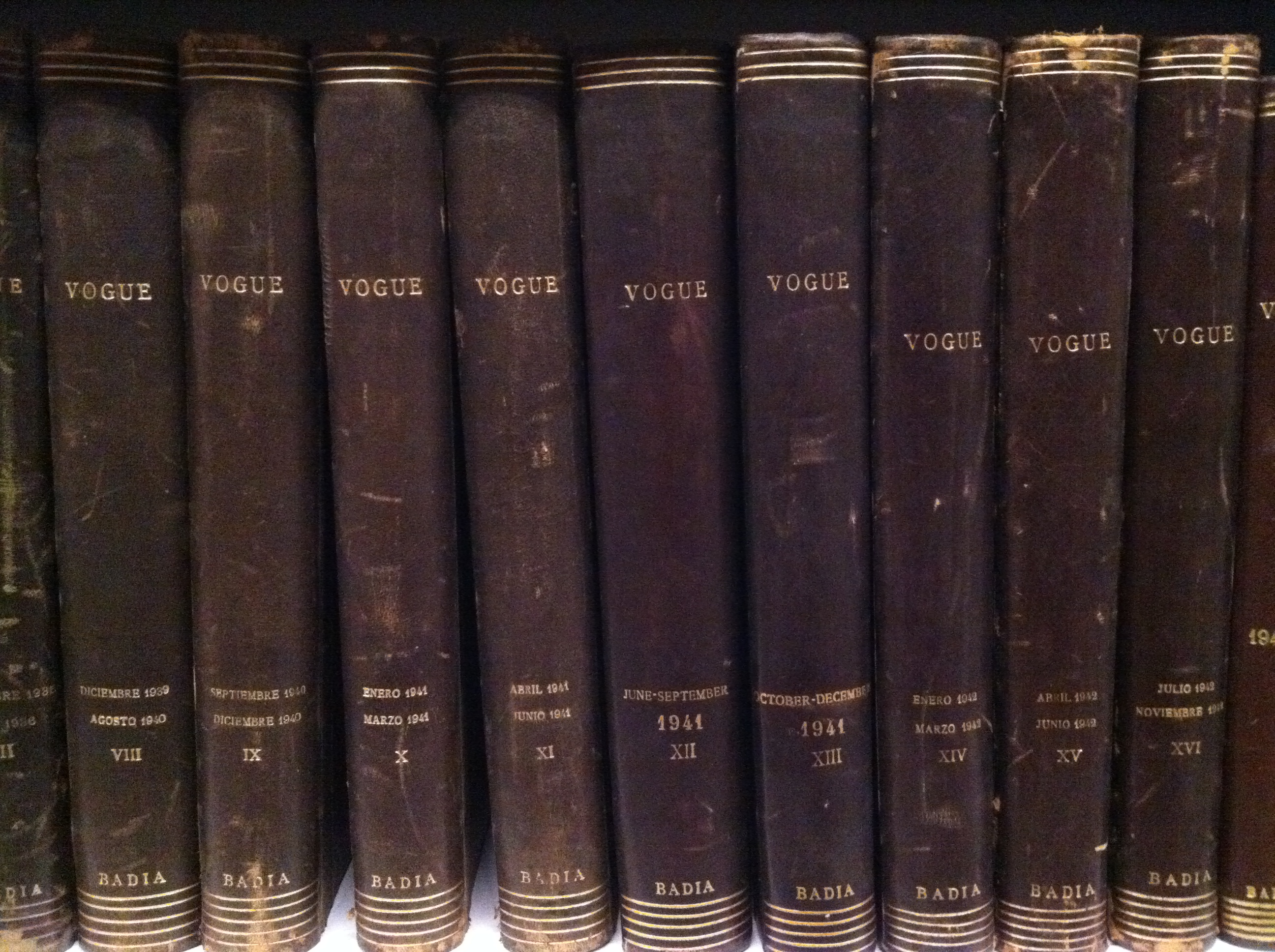 Documentation Center and Textile Museum of Terrassa